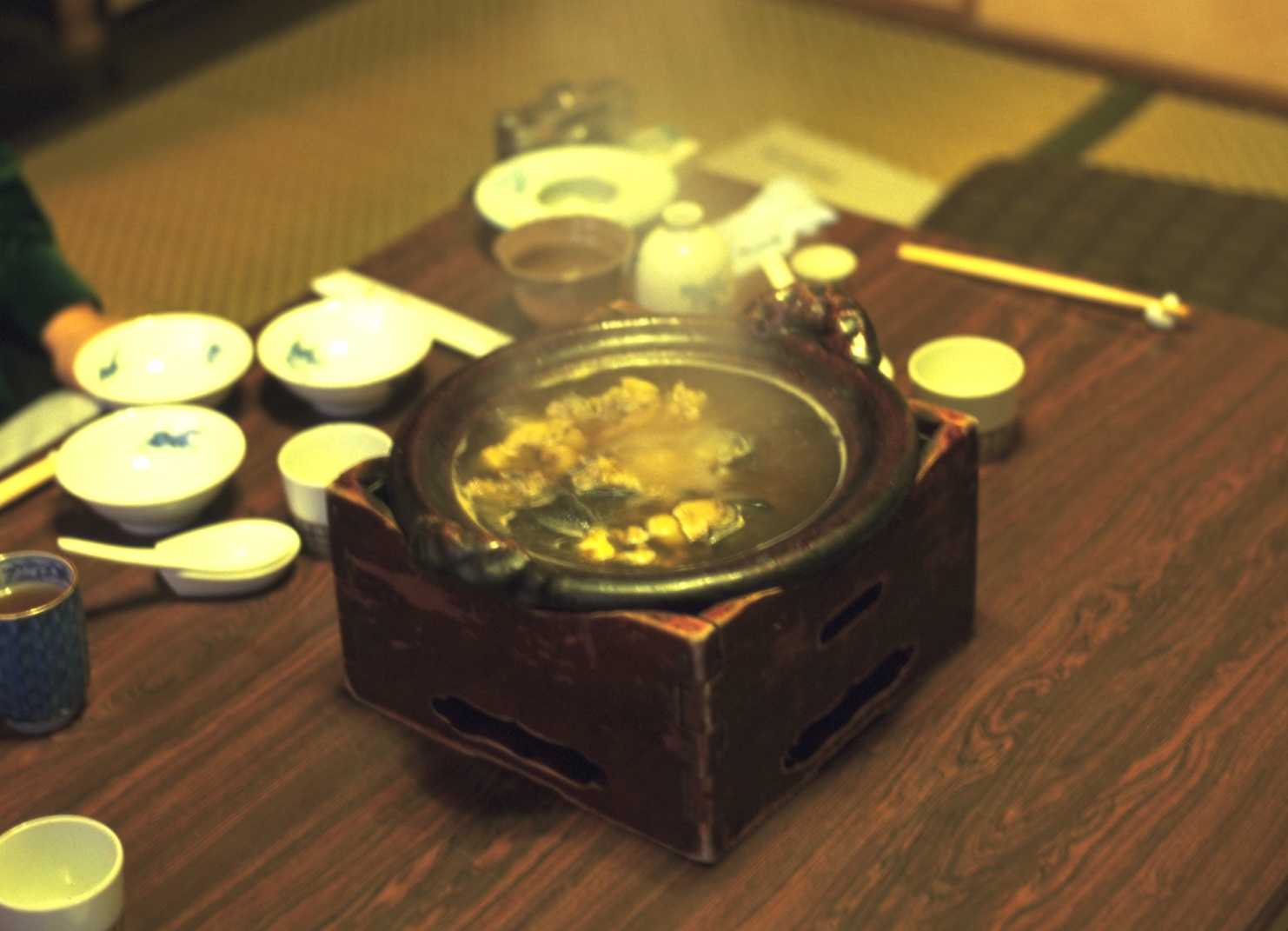 Suppon Soup (Kyoto)